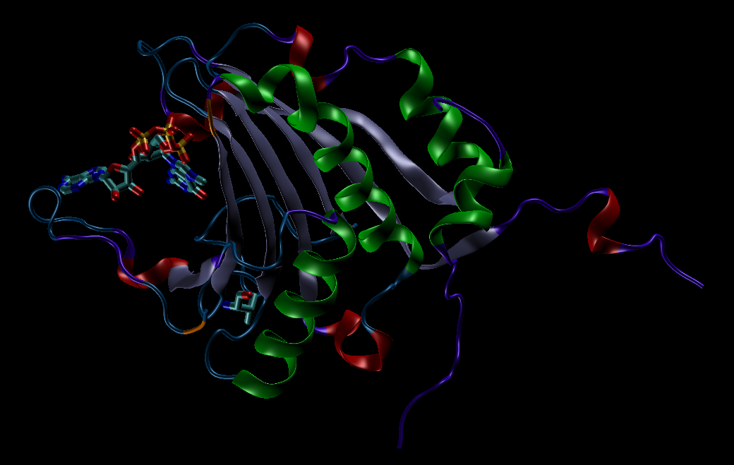 eIF4E protein bounded with the synthetic cap analogue as a ligand